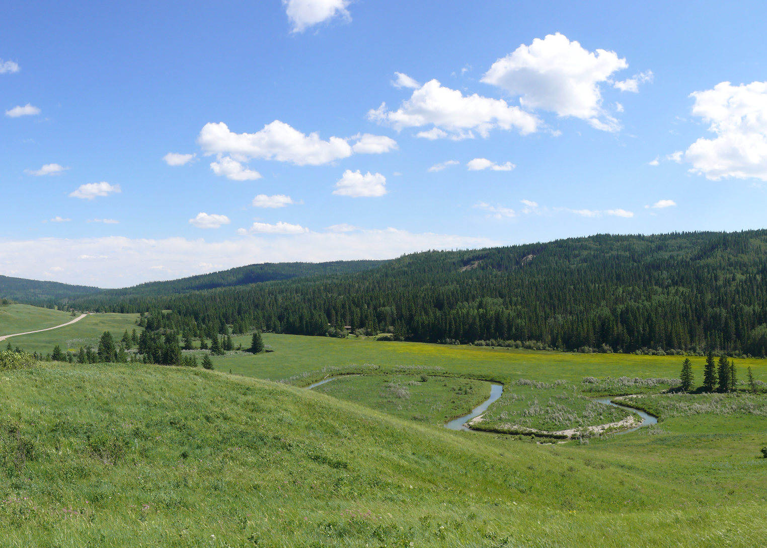 Taken at the site of the Cypress Hills Massacre. Cypress Hills, Alberta, Canada.